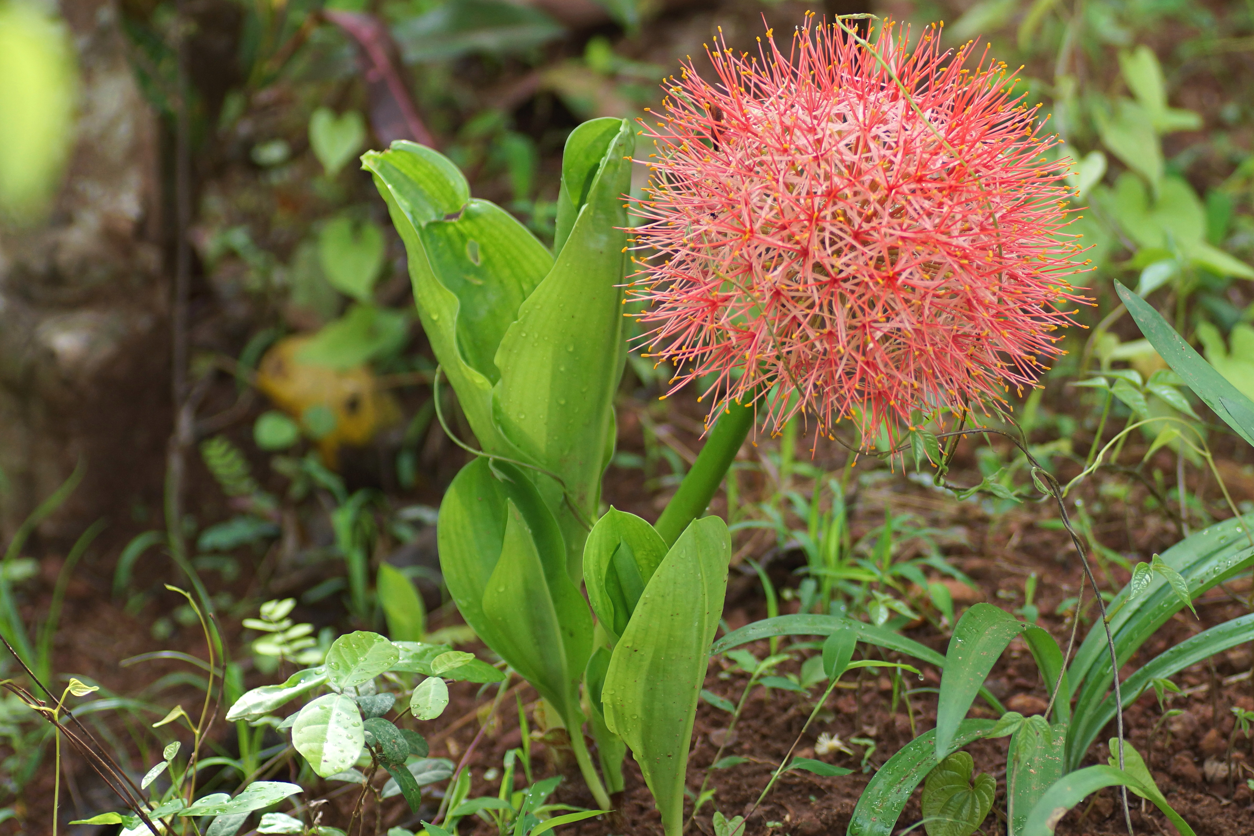 The flower is also known as the Monsoon Lily and the Fireball in India. It has another botanical name, haemanthus multiflorus. The inflorescence is big and spherica, resembling the football.The plant has bulbs which multiply each year. This lily is a native of Namibia in Africa. The leaves are bright green and attractive. The plant flowers during the Monsoons. All parts of this plant are poisonous.